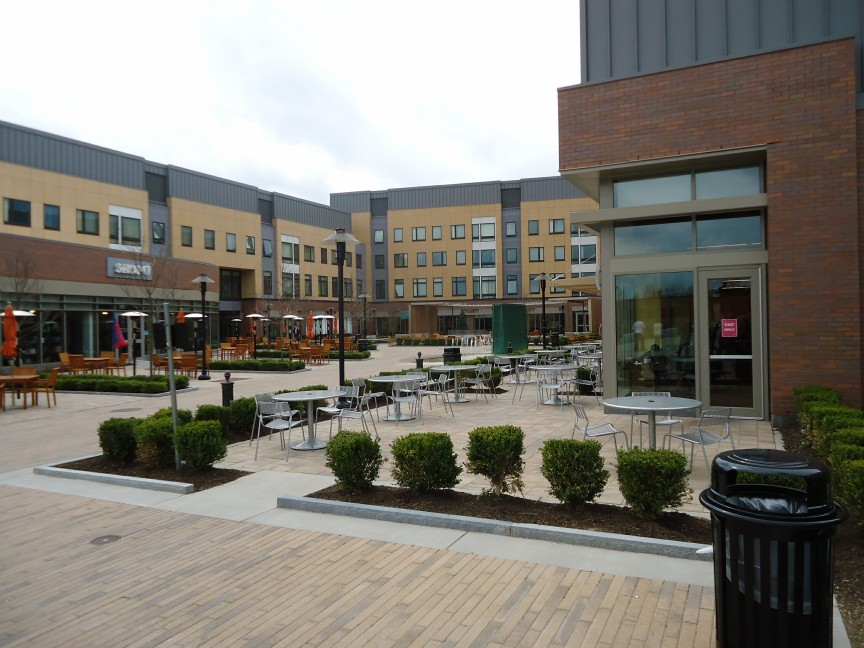 Global Village Plaza (400) at the Rochester Institute of Technology.